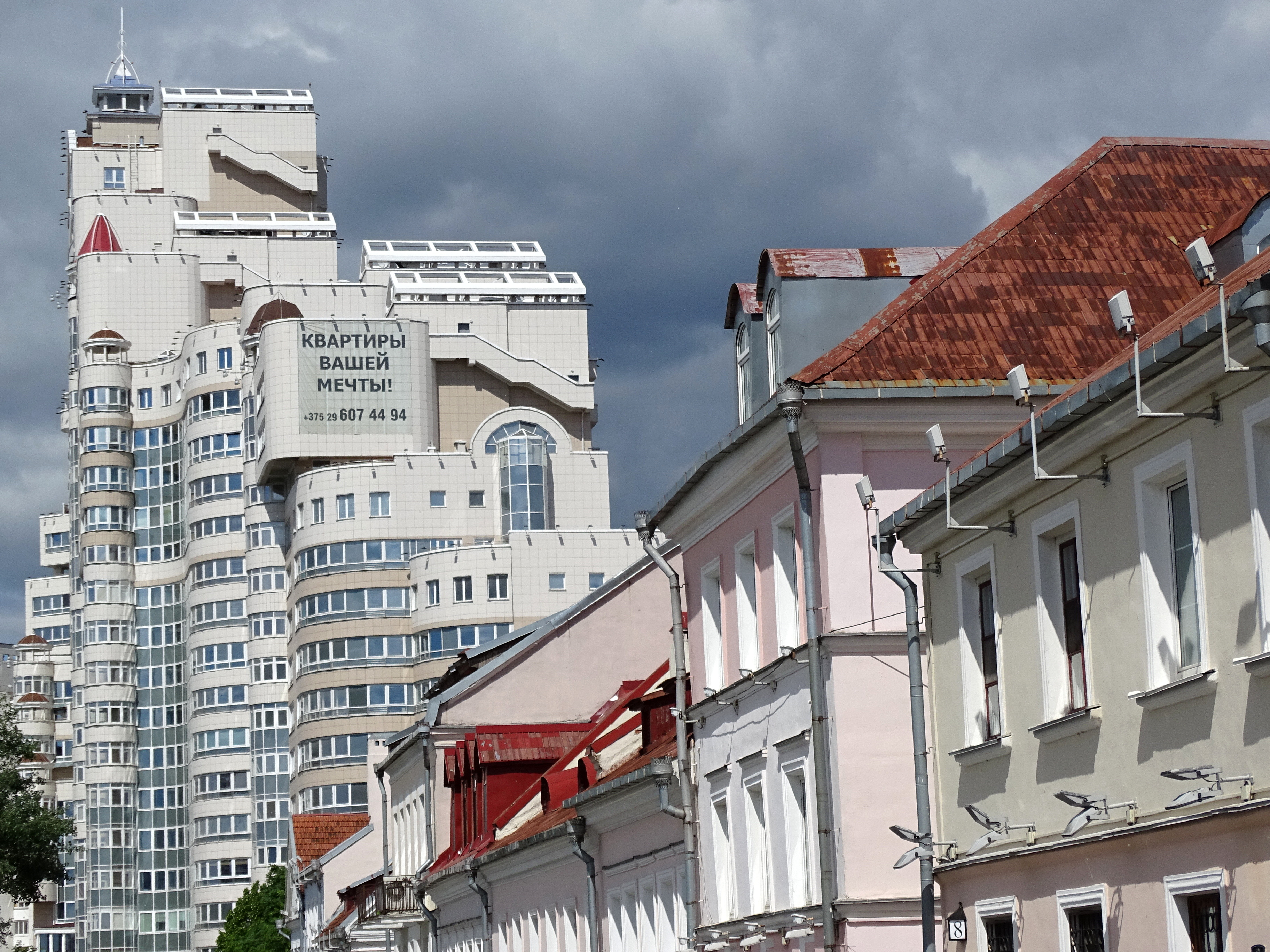 Architectural Detail - Minsk - Belarus - 01